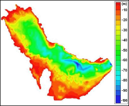 Bathymetry of the Persian Gulf Srpskohrvatski / српскохрватски: Batimetrija Perzijskog zaljeva / Батиметрија Перзијског заљева